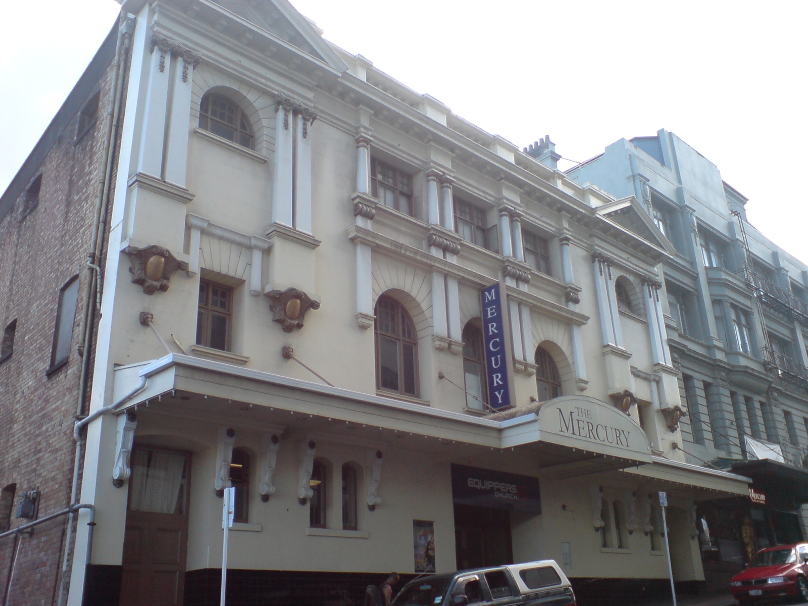 The Mercury Theatre in Auckland, New Zealand. A locally famous heritage theatre somewhat fallen into disrepair.